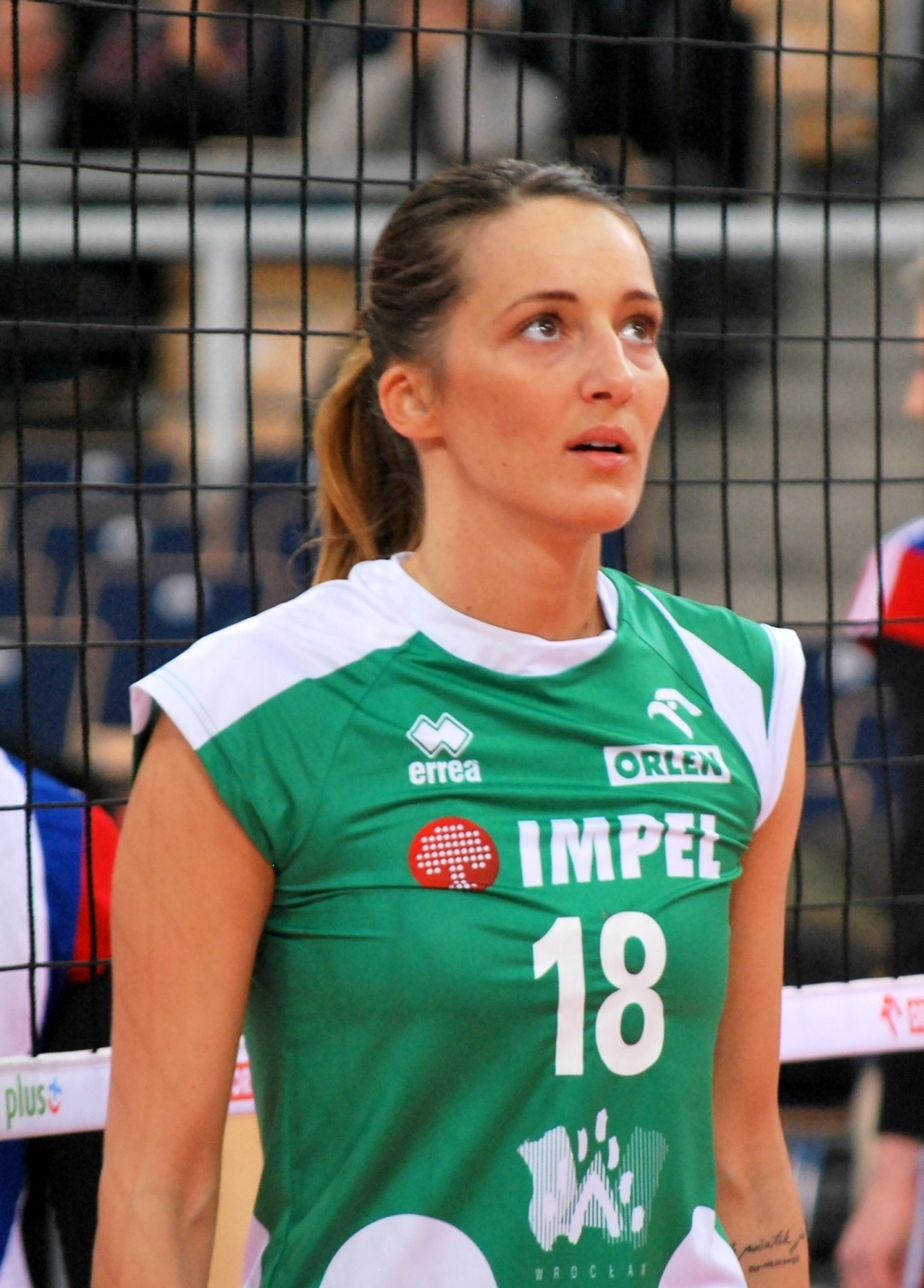 Maja Ognjenović, serbian volleyball player